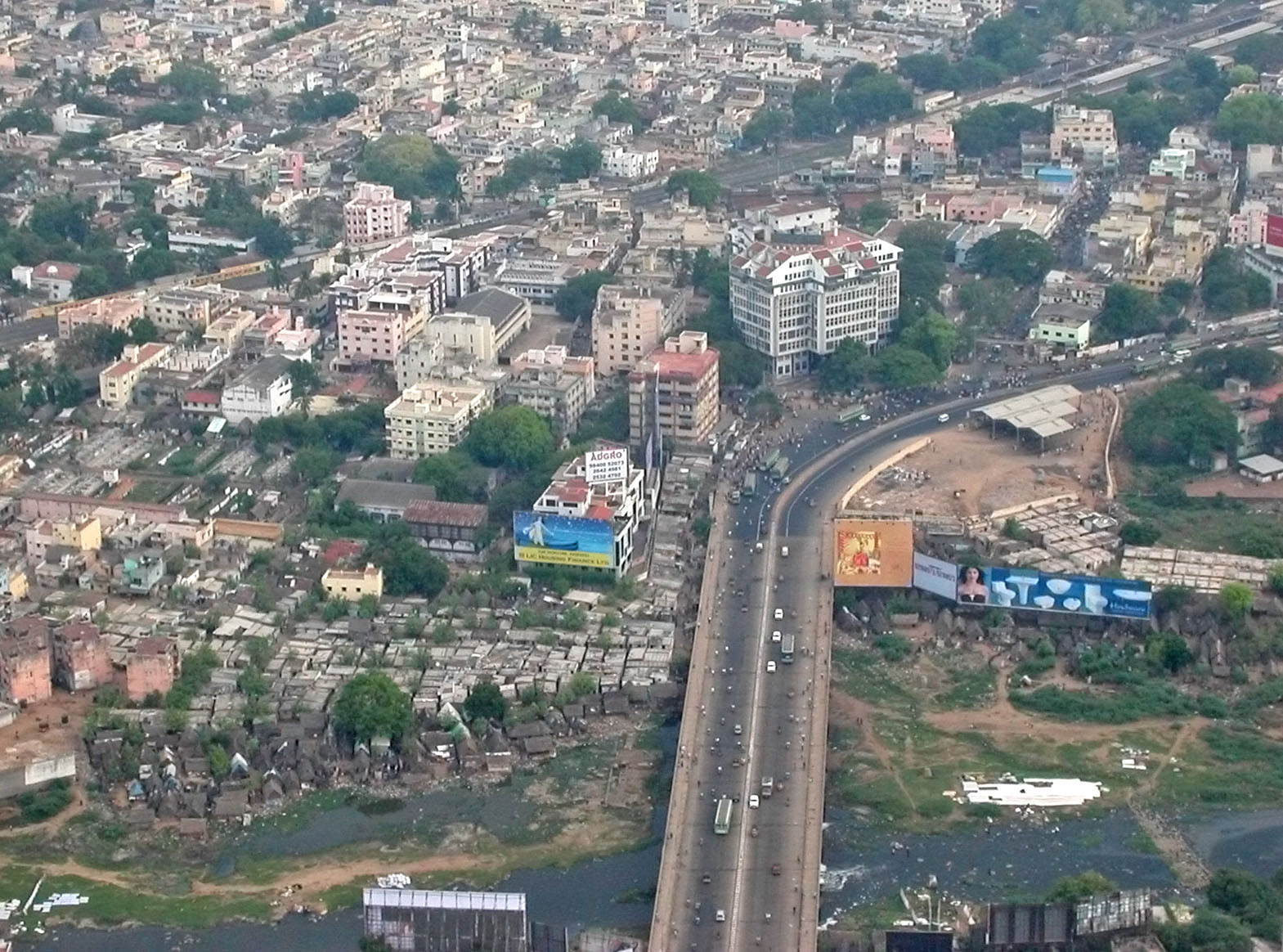 Aerial view Saidapet and the Saidapet bridge over the Adyar River. The railway statioo is visible on the top right.